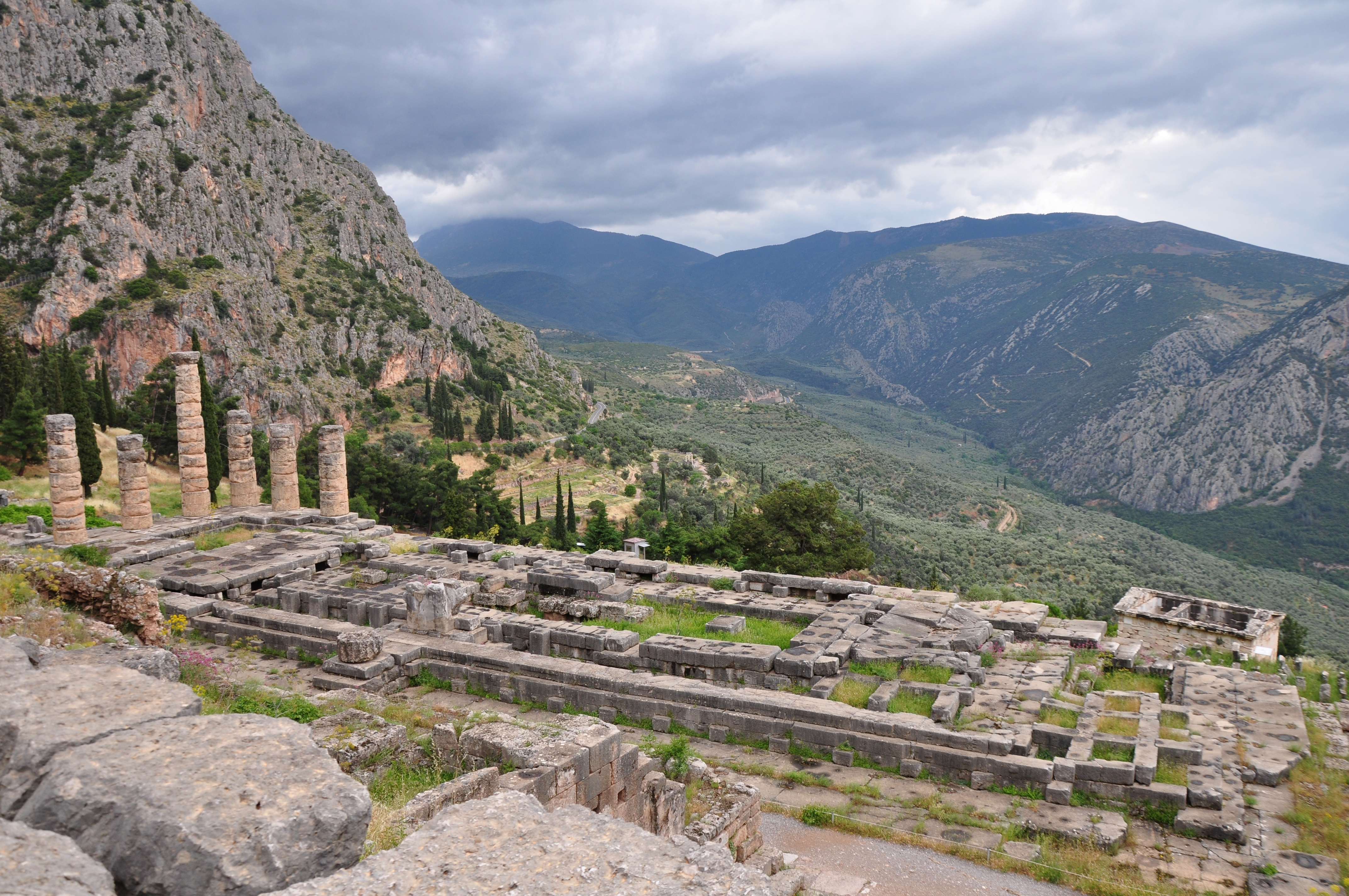 The temple of Apollo (the centre of the Delphi oracle and Pythia) dated to the 4th century BC.